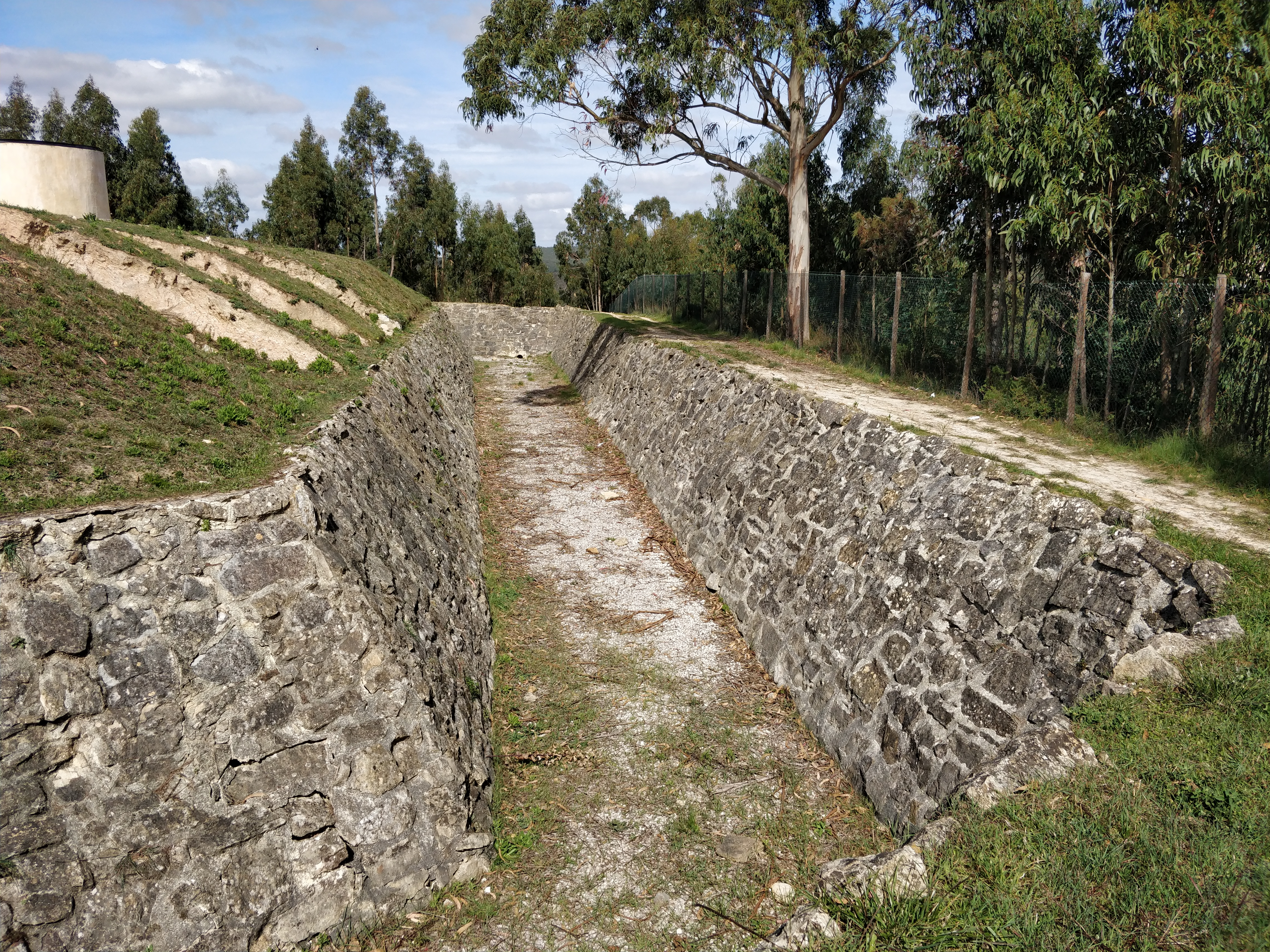 View of the stone-lined moat of the Fort of Olheiros, Torres Vedras, Portugal